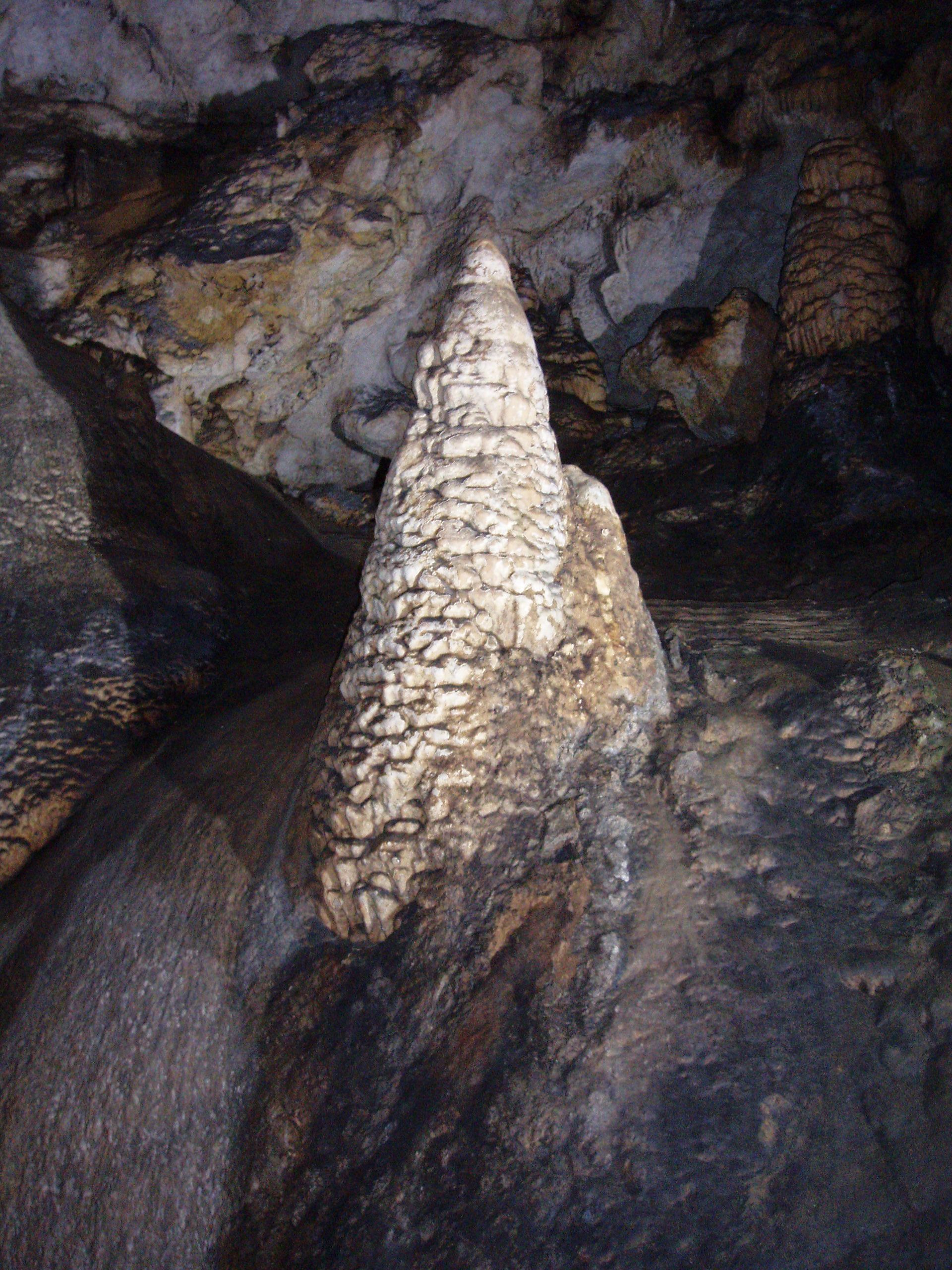 Maximiliansgrotte